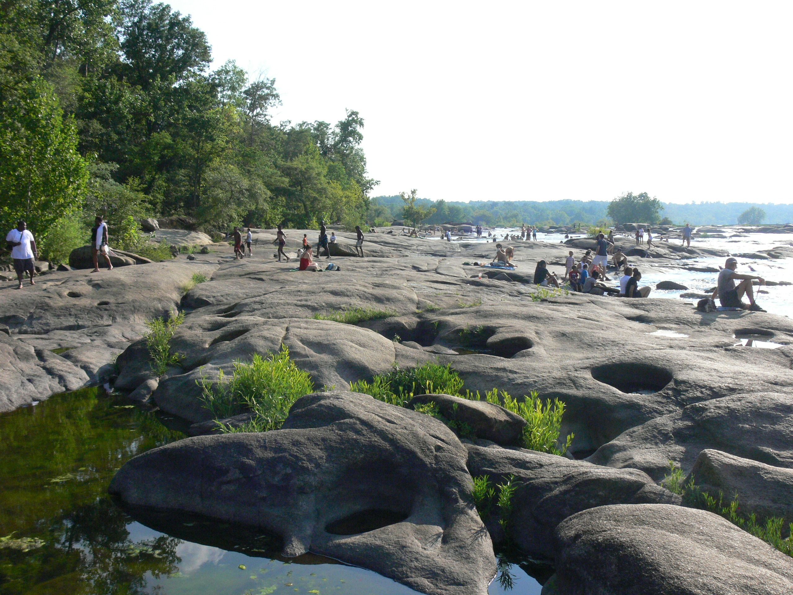 People sitting and bathing and on the rocks on the north side of Belle Isle, part of the James River Park system in Richmond, Virginia.